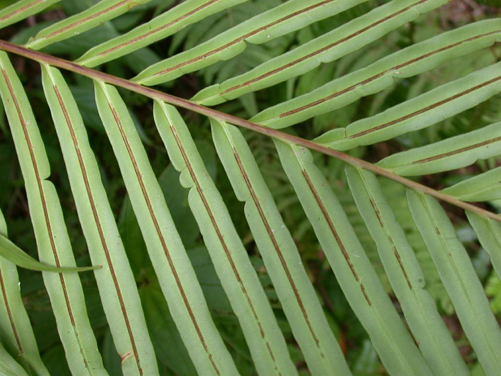 Blechnum orientale